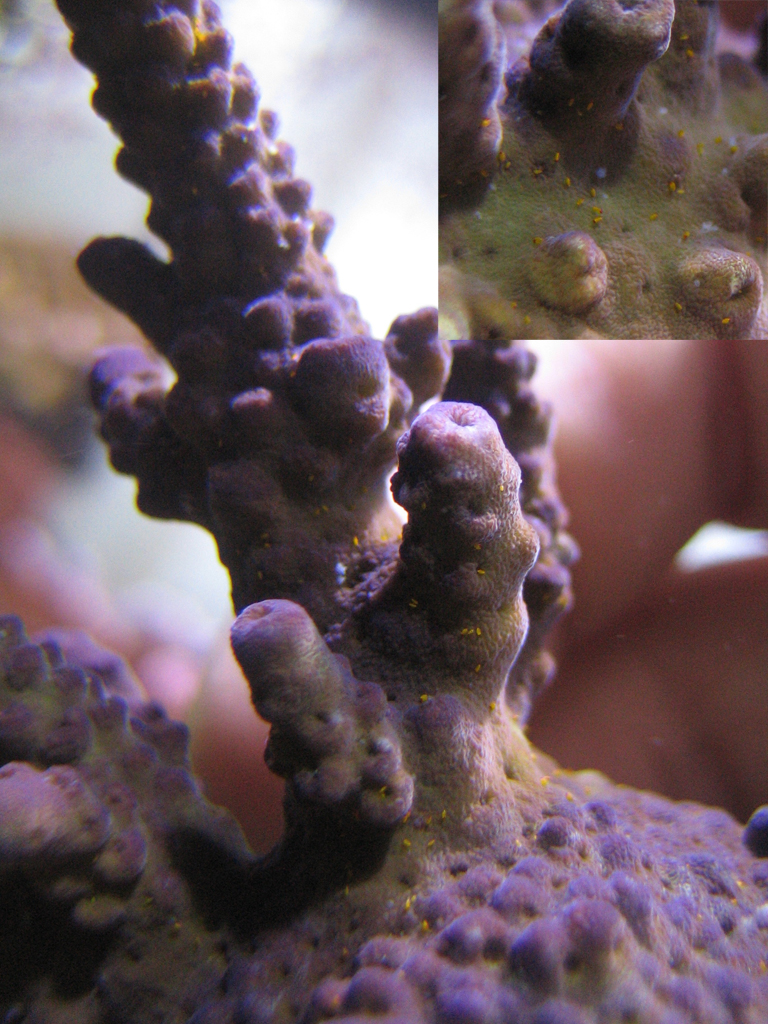 A typical red bug infestation on an Acropora. In the top-right corner is a close-up of the red bugs with their distinctive red pigmentation. Photographed by JSteljes in June 2006 and released to the public domain.